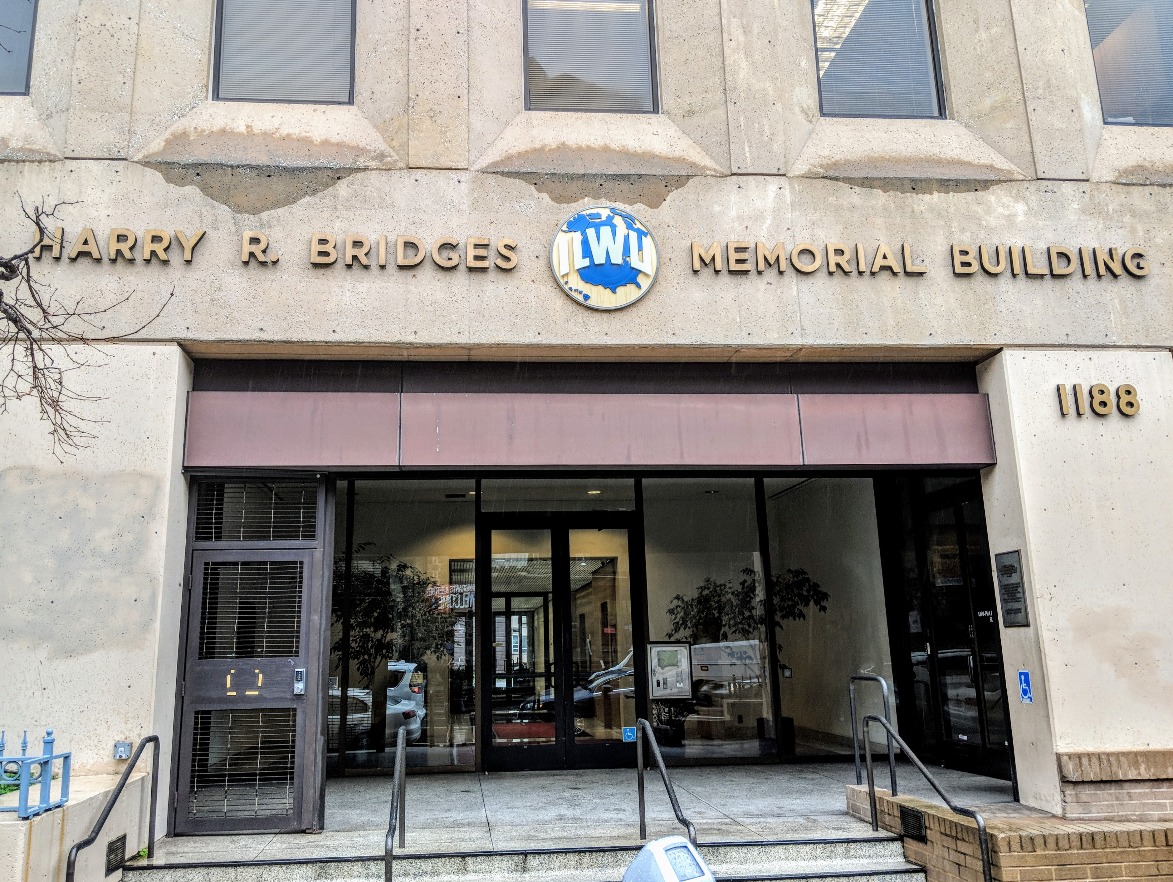 The entrance to the Harry R. Bridges Memorial Building, headquarters of the ILWU in San Francisco. Photo by Jim Heaphy.